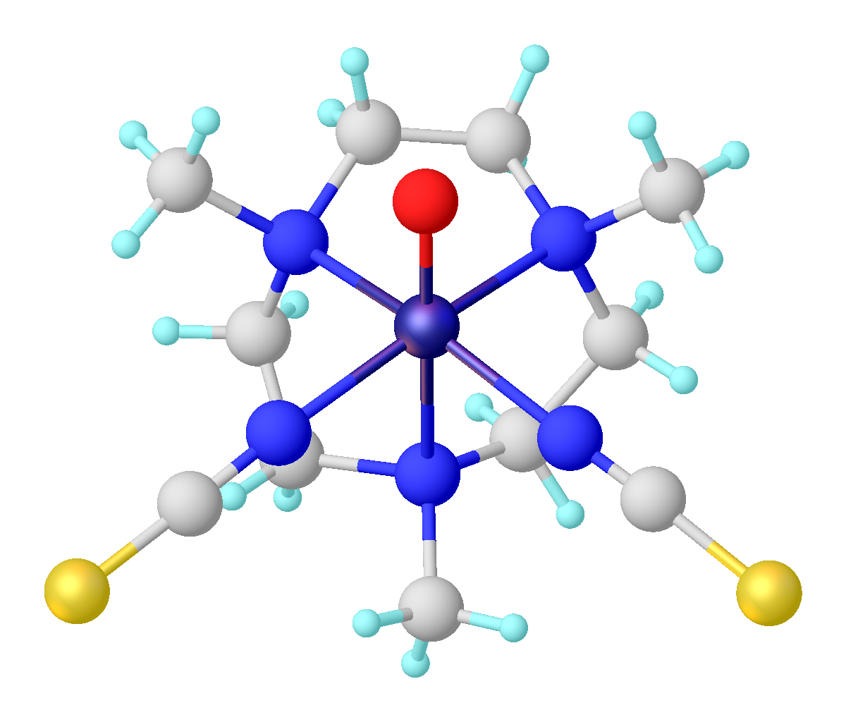 Structure of OTi(NCS)2(Me3tacn) from doi 10.1021/ic00044a015